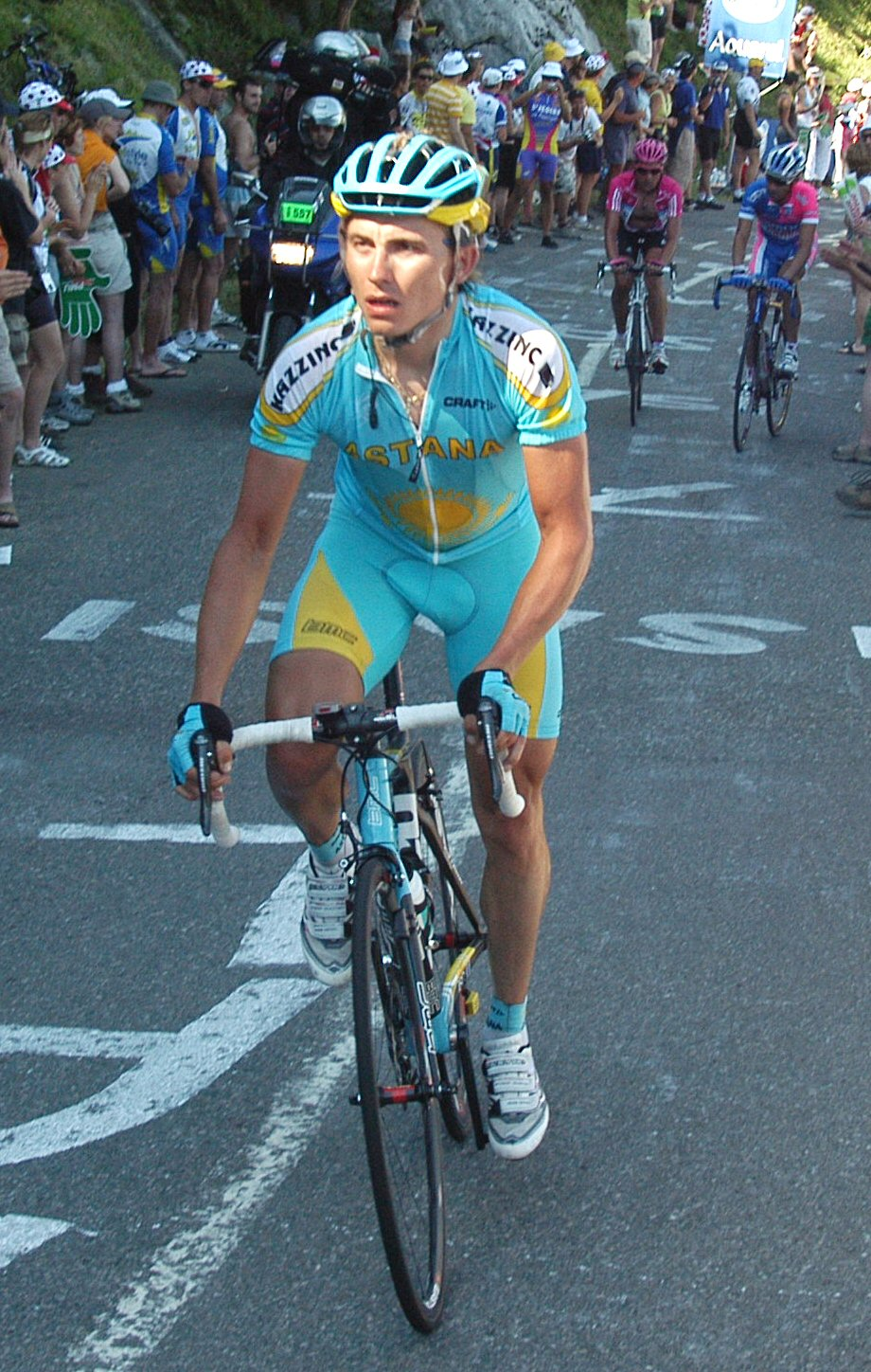 Maxim Iglinskiy at stage 7 of the Tour de France 2007 on the Col de la Colombière.